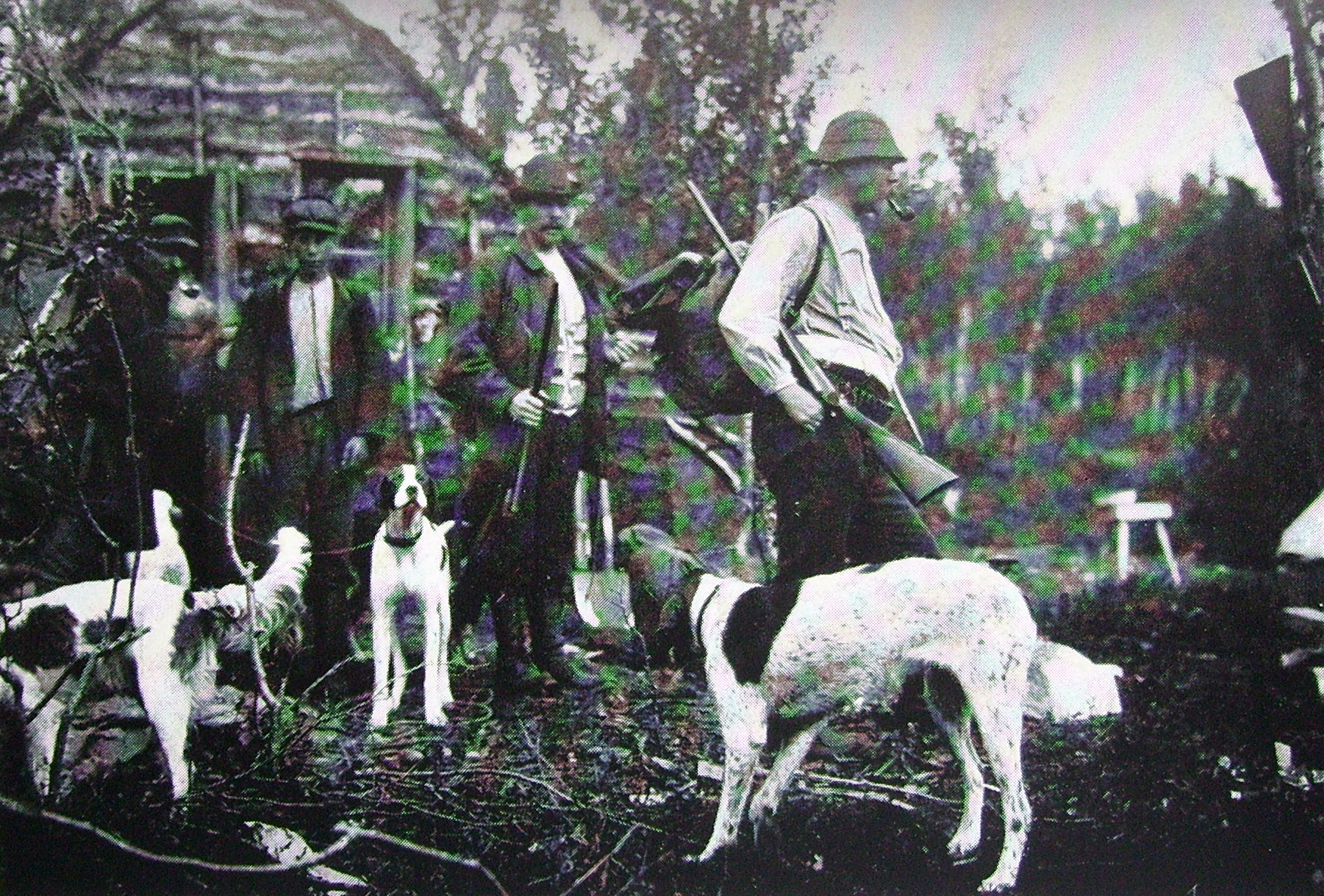 Picture of carriers, Hugo Swärd and Henrik Almstrand during a hunting trip in Sweden